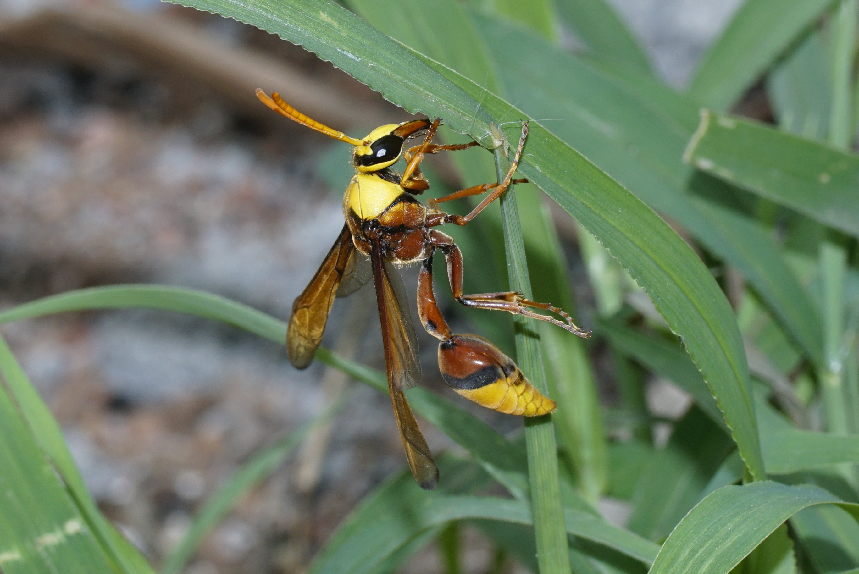 Delta pyriforme